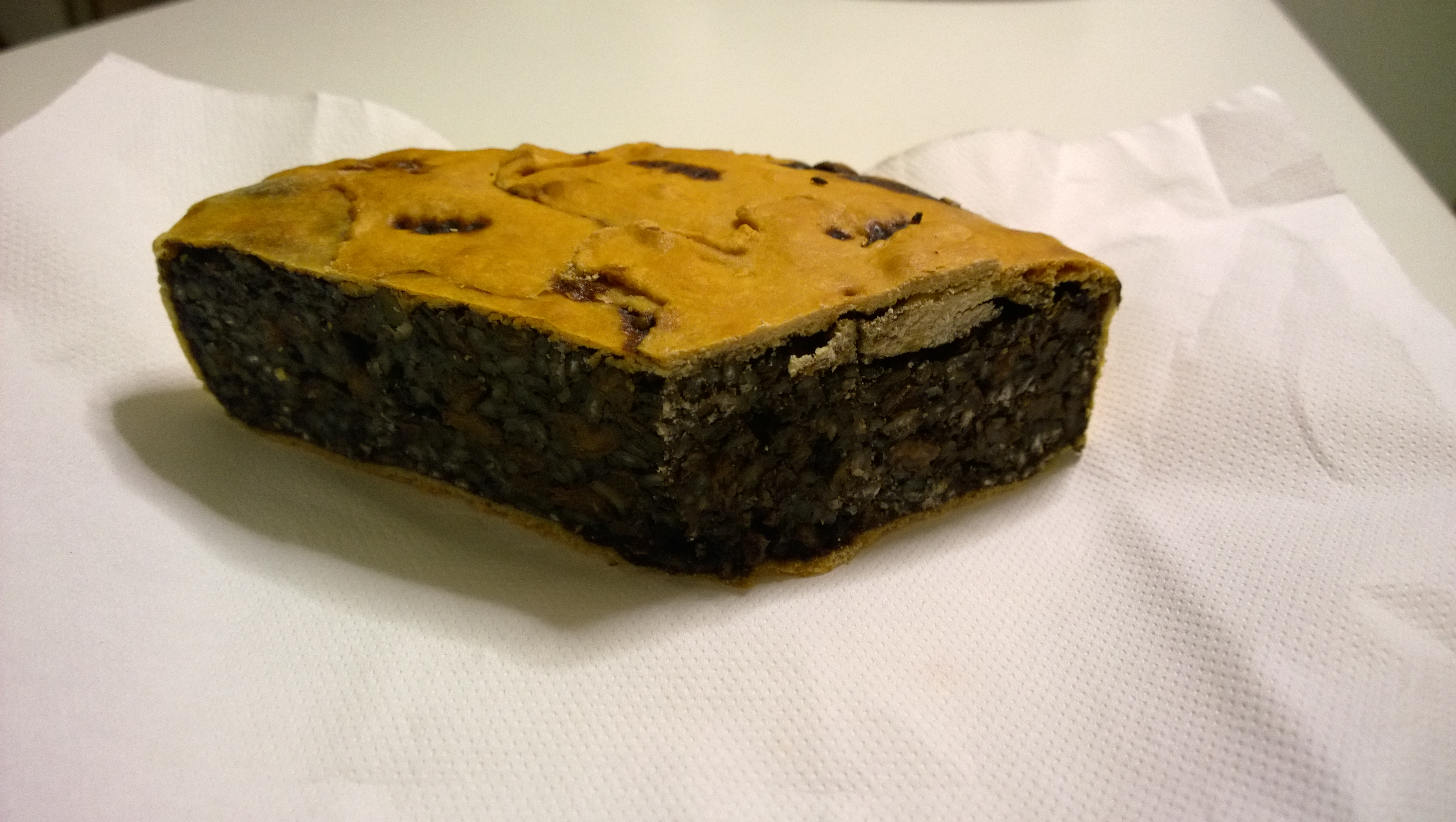 Winter cake made in the italian region Basilicata (the old Lucania) covered by shortbread and composed with pig blood, rice, chocolate and raisin.